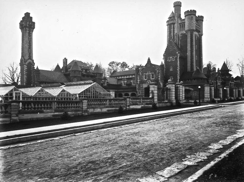 Photographs : Casa Loma stables and greenhouses, Casa Loma, 1 Austin Terrace, Toronto, Ontario, Canada; circa 1911; Fonds 1244, Item 4155.